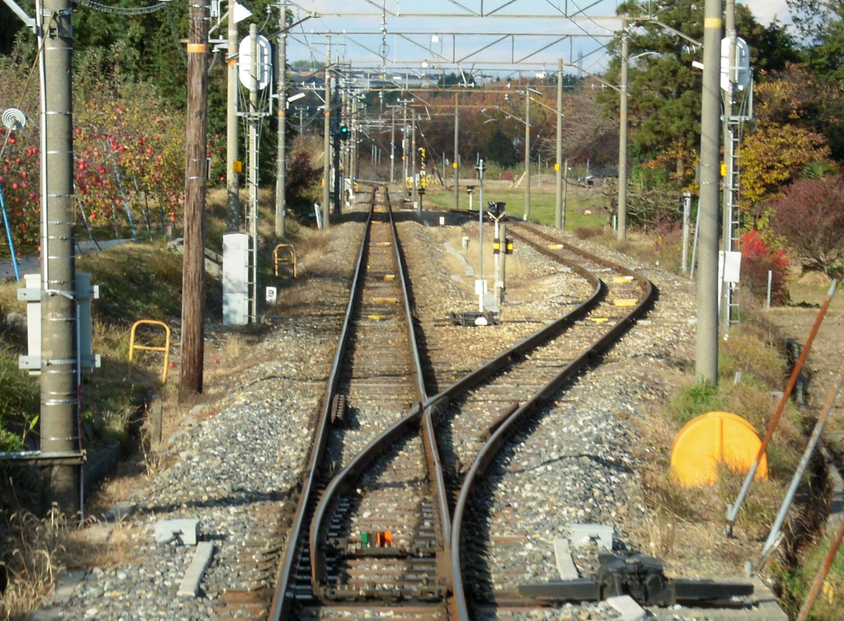 JR Iida line Ohsawa signal station